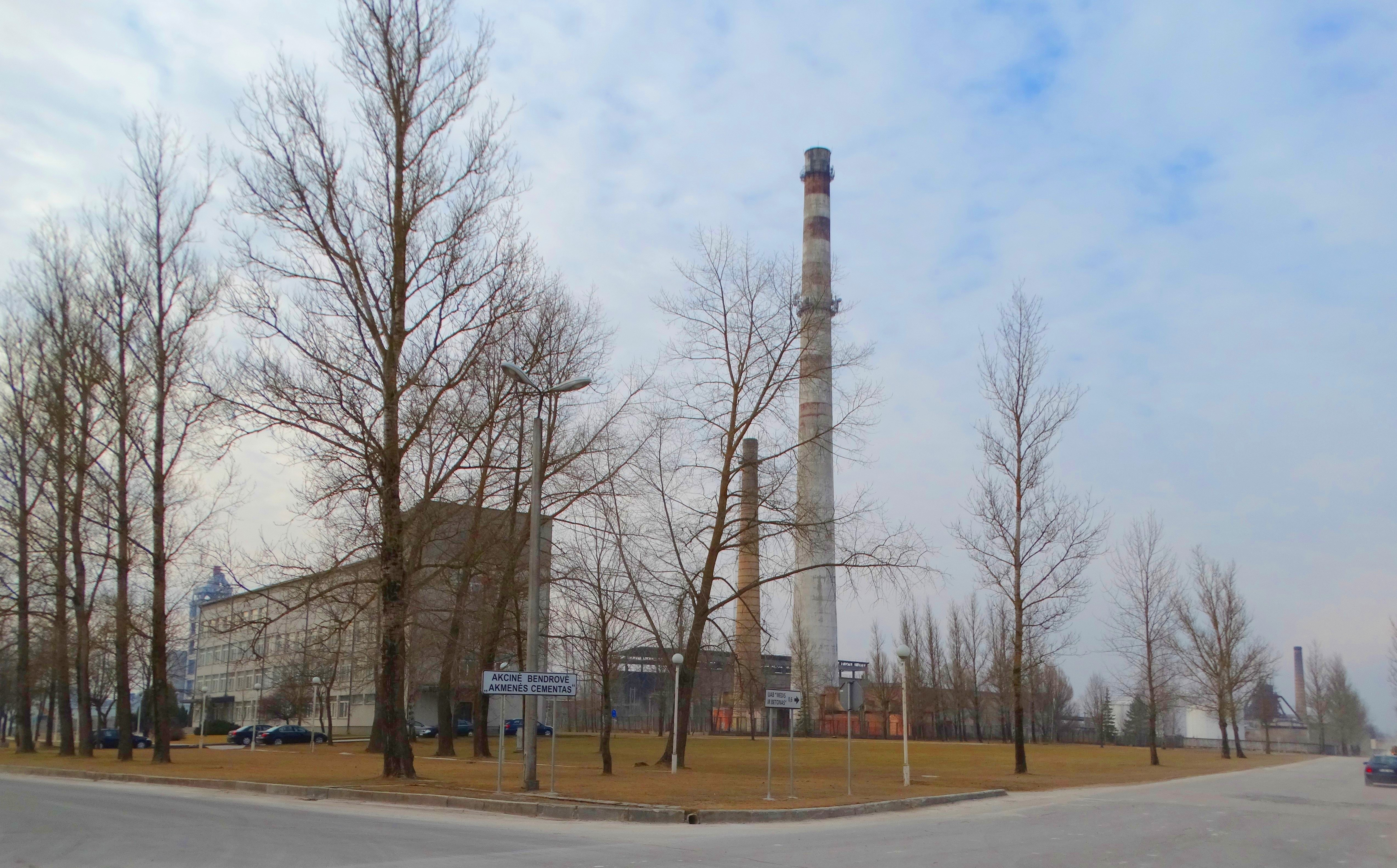 Сement plant, Naujoji Akmenė, Lithuania